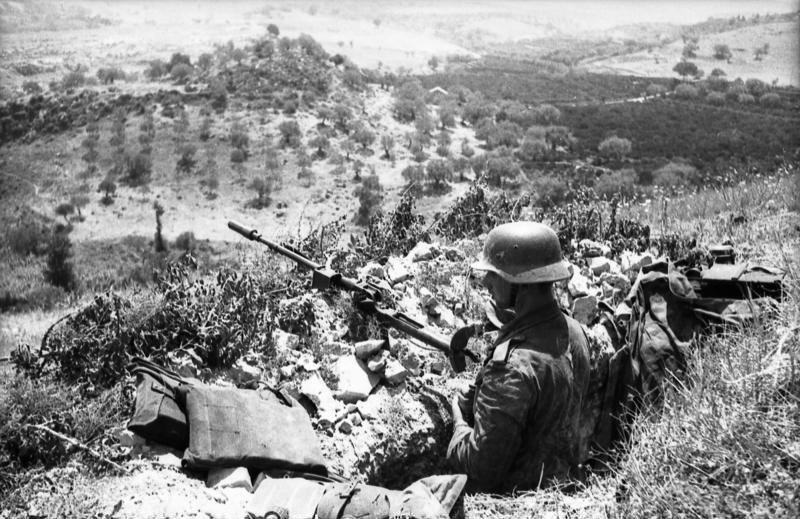 Information added by Wikimedia users.